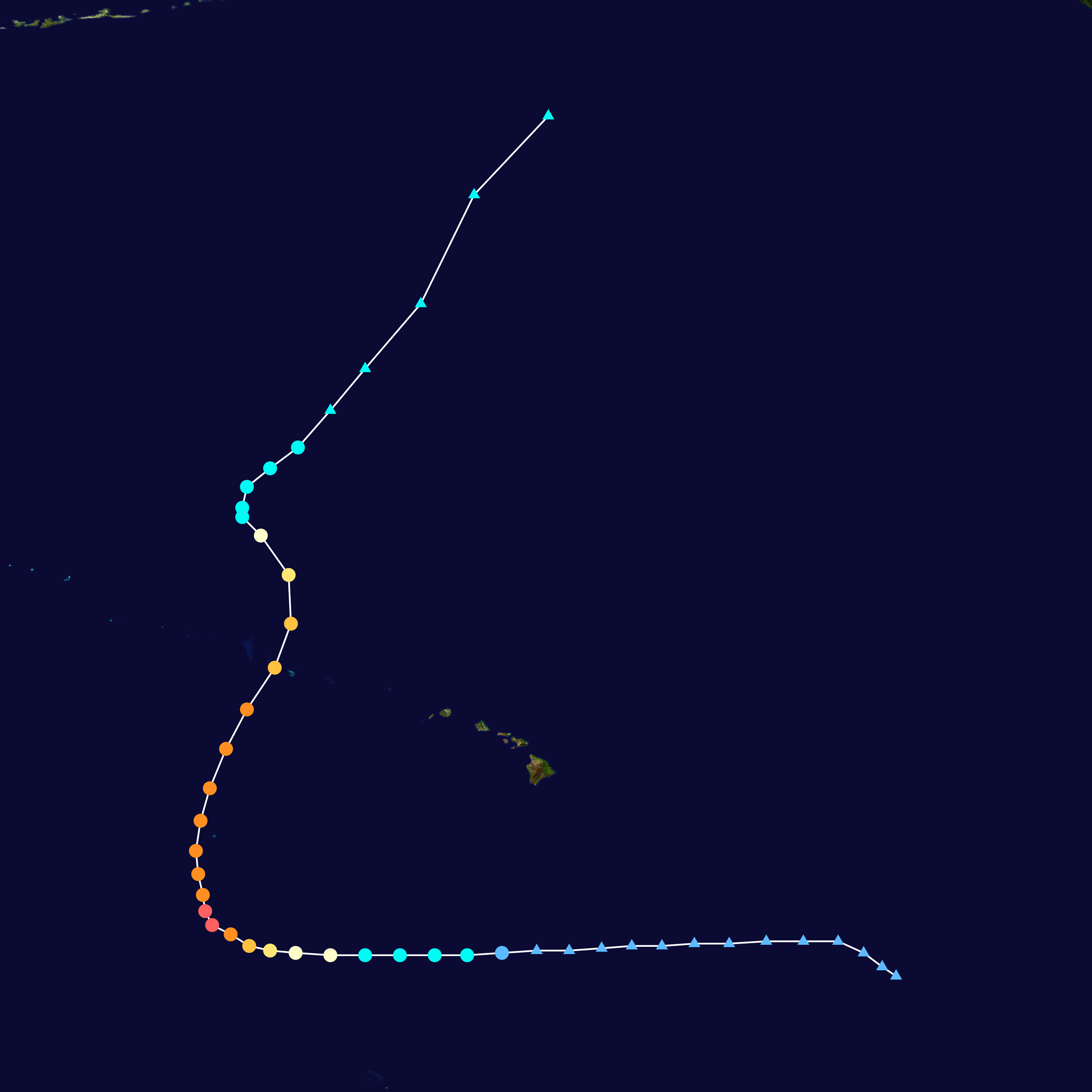 Track map of Hurricane Walaka of the 2018 Pacific hurricane season. The points show the location of the storm at 6-hour intervals. The colour represents the storm's maximum sustained wind speeds as classified in the Saffir–Simpson scale (see below), and the shape of the data points represent the nature of the storm, according to the legend below. Saffir–Simpson scale Tropical depression≤38 mph≤62 km/h Category 3111–129 mph178–208 km/h Tropical storm39–73 mph63–118 km/h Category 4130–156 mph209–251 km/h Category 174–95 mph119–153 km/h Category 5≥157 mph≥252 km/h Category 296–110 mph154–177 km/h Unknown Storm type Tropical cyclone Subtropical cyclone Extratropical cyclone / Remnant low / Tropical disturbance / Monsoon depression